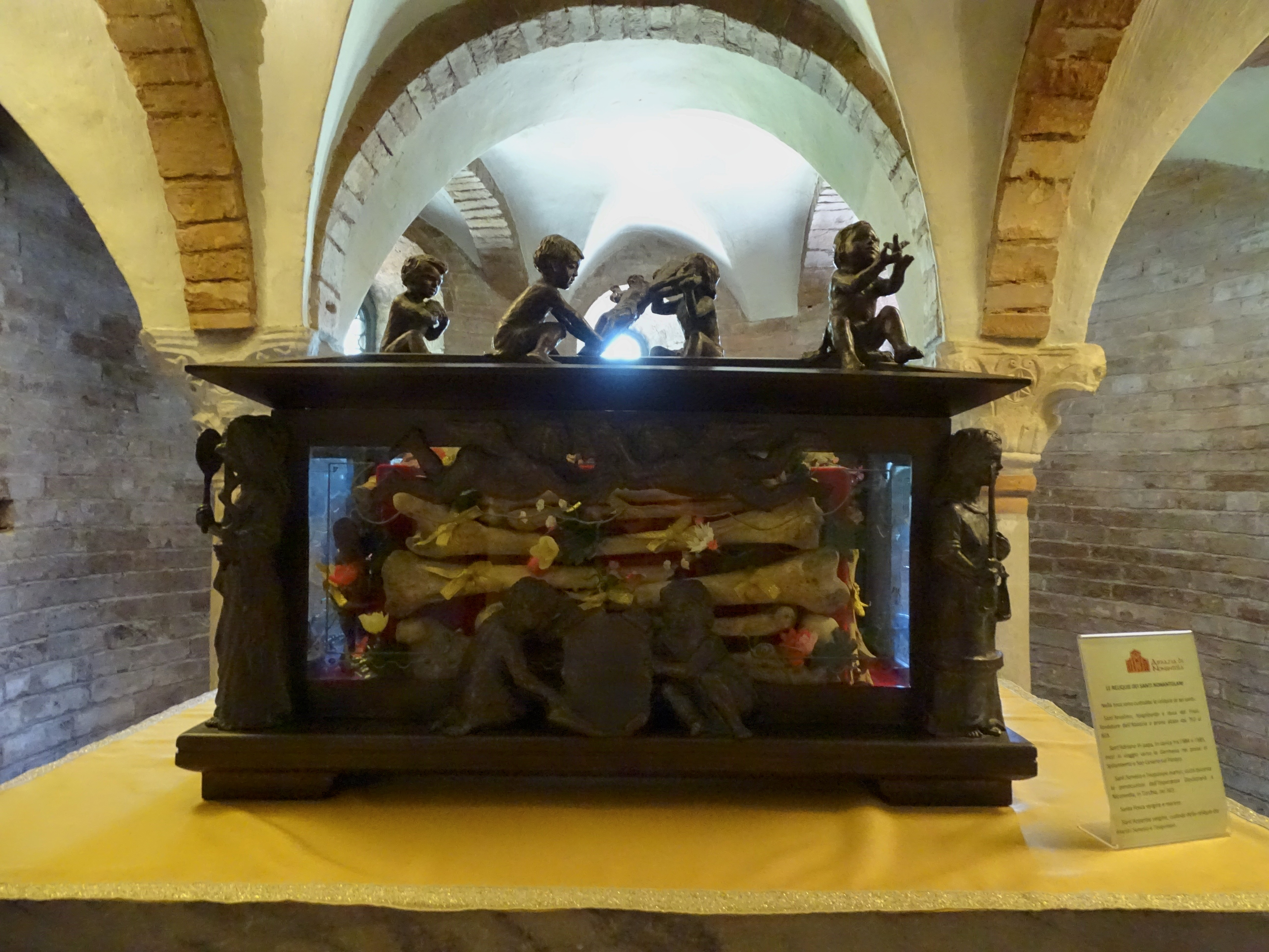 Relics of the Nonantolan Saints in the Abbey of Saint Sylvester in Nonantola: St Anselm, St Hadrian, St Senesio, St Teonas, St Fusca, St Anseride. The Reliquary was made in 1990.